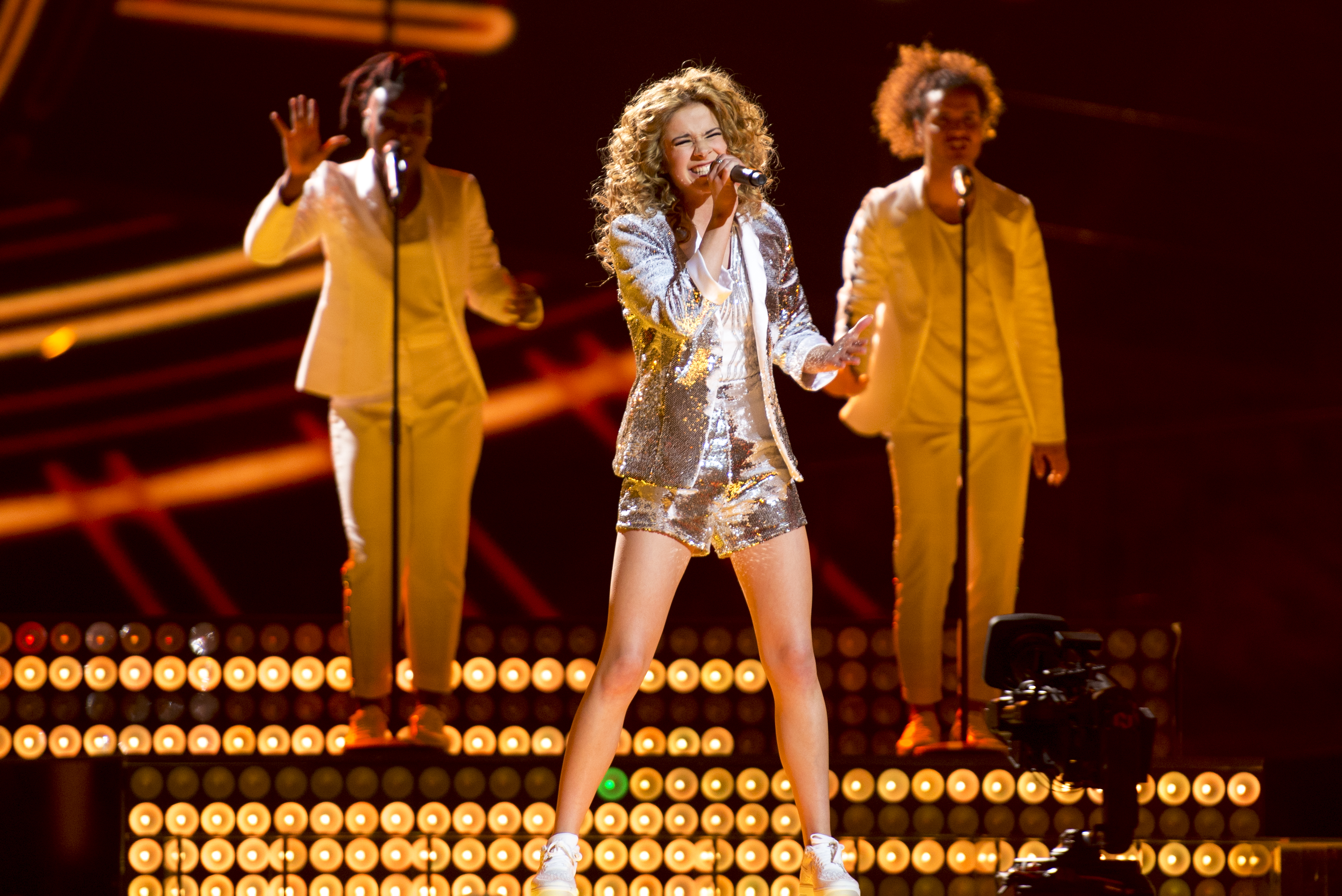 Laura Tesoro representing Belgium with the song "What's The Pressure" during a rehearsal before the second semi final of the Eurovision Song Contest 2016 in Stockholm. (Help translate this text)